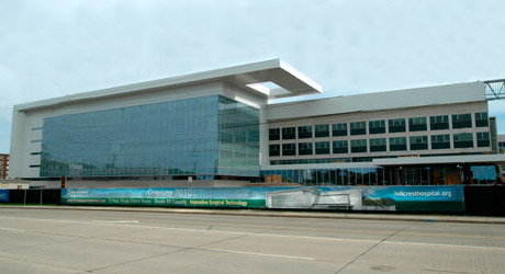 The front of Hillcrest Hospital, with the new bed tower on the left side.